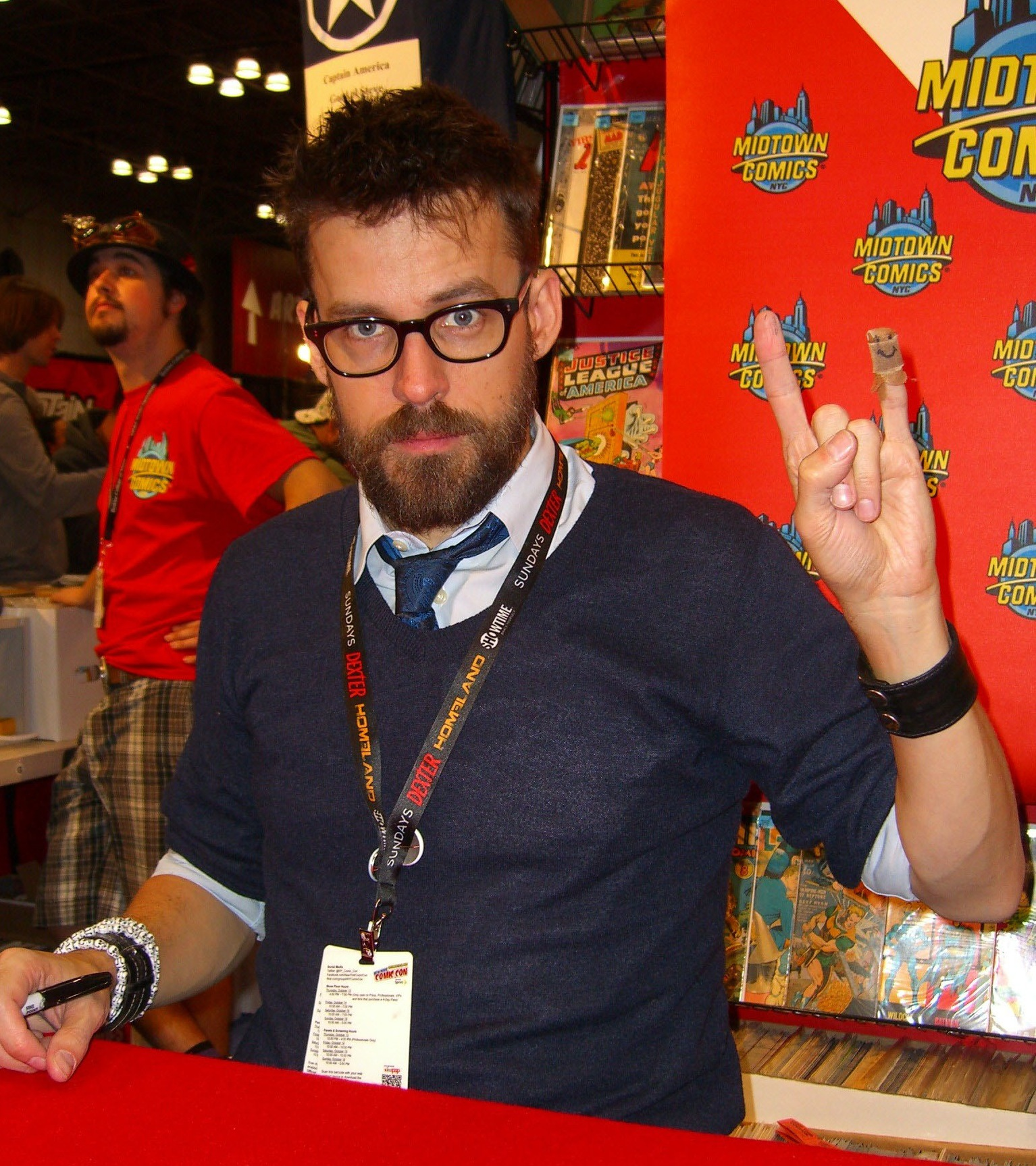 Comics creator Matt Fraction during an October 16, 2011 appearance at the Midtown Comics booth at the New York Comic Con in Manhattan. This photo was created by Luigi Novi. It is not in the public domain, and use of this file outside of the licensing terms is a copyright violation.